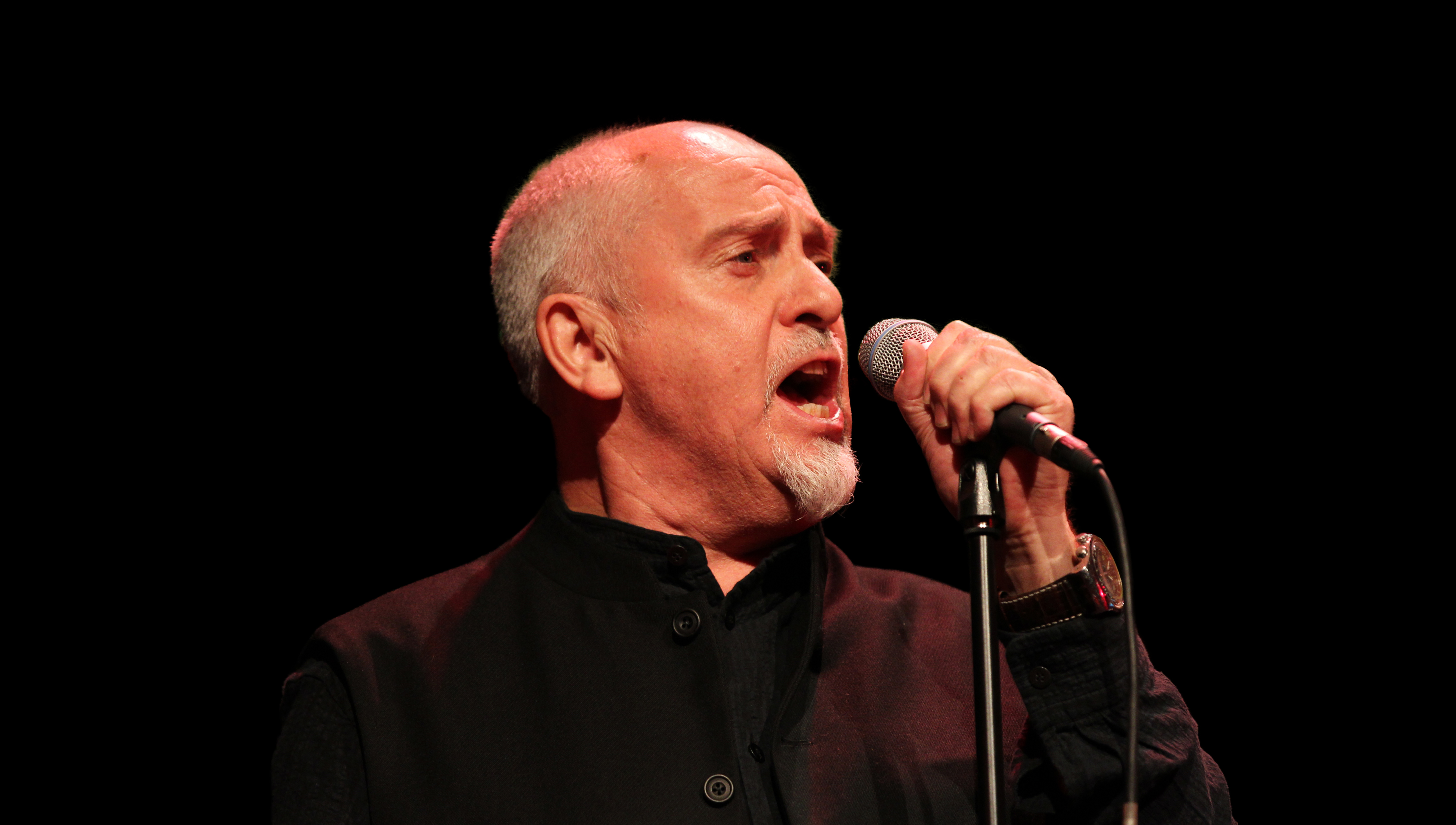 Peter Gabriel performing at the 2011 Skoll Awards. (This is the version of the photo with the background removed and a new black space on the right side...)